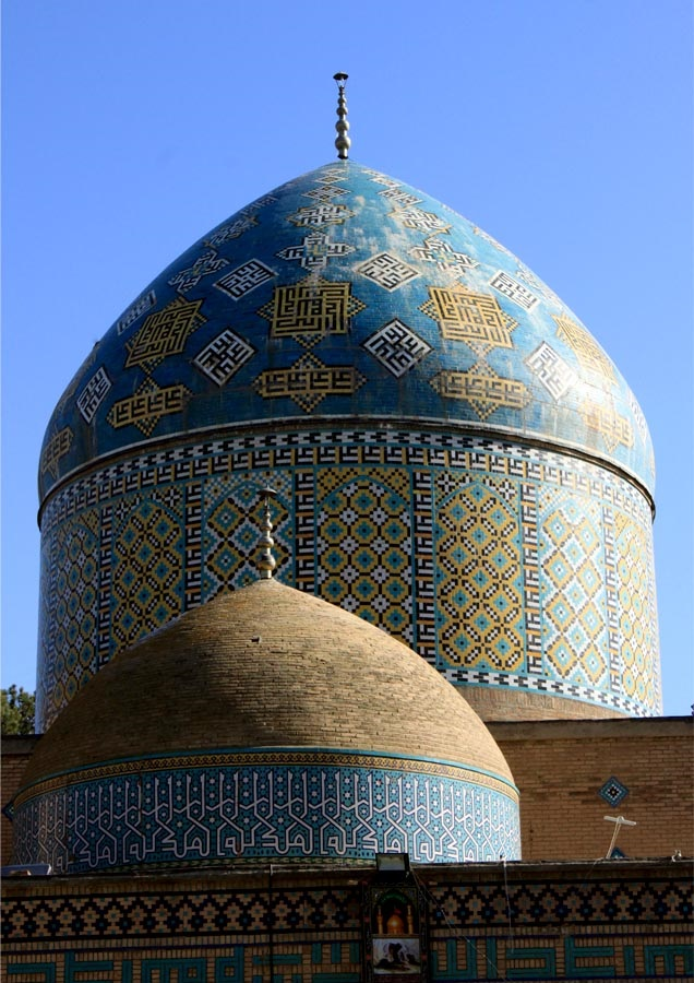 Mohammad Al-Mahruq mosque dome